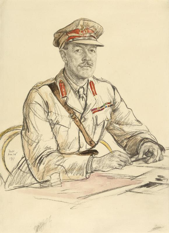 Major-general Sir Joseph John Asser, Kcvo, Cb image: a half length portrait of Major-General Joseph Asser in uniform, seated writing at a table.